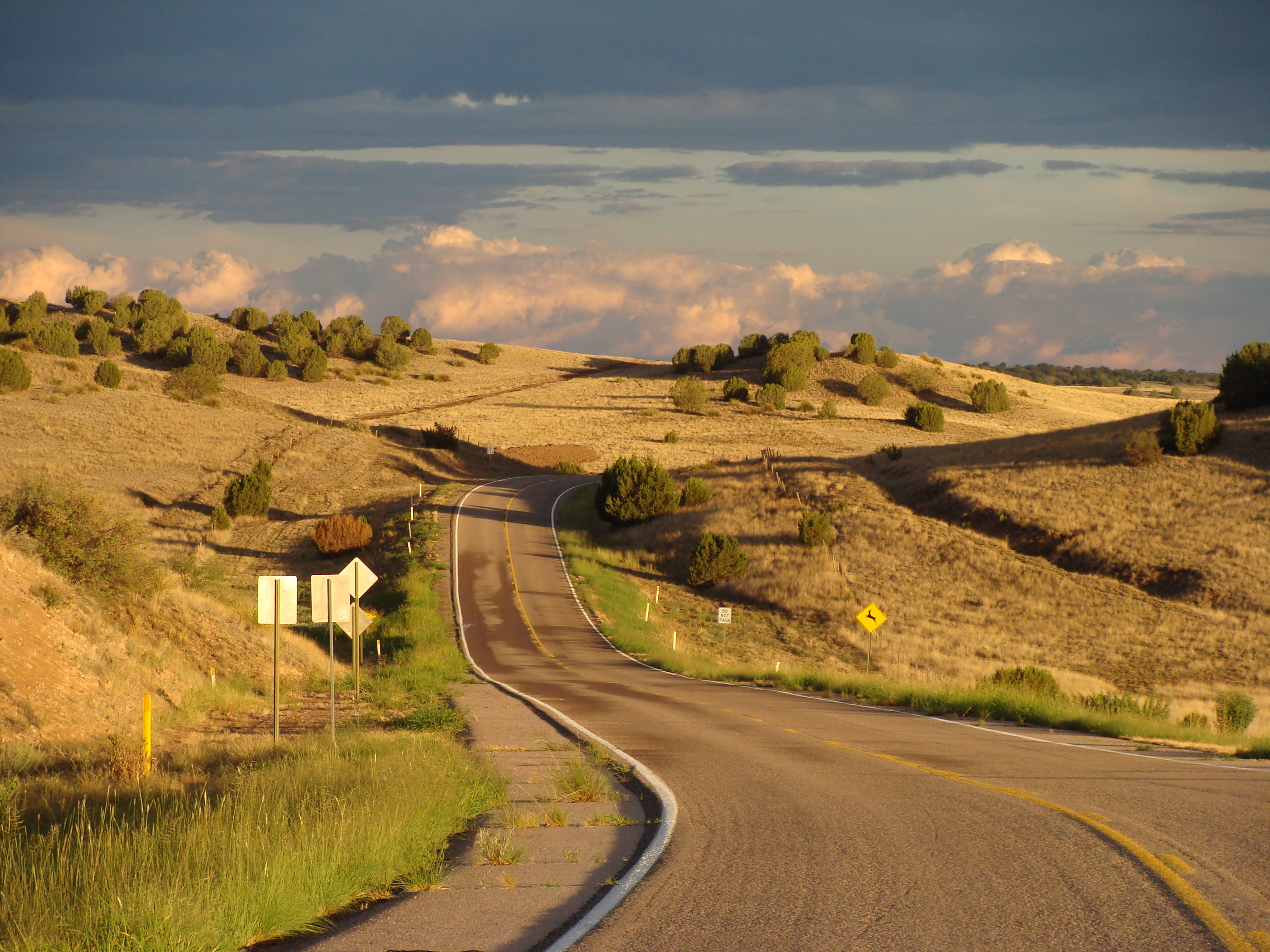 Hwy 180, west of Silver City, New Mexico. It was after a rainfall.